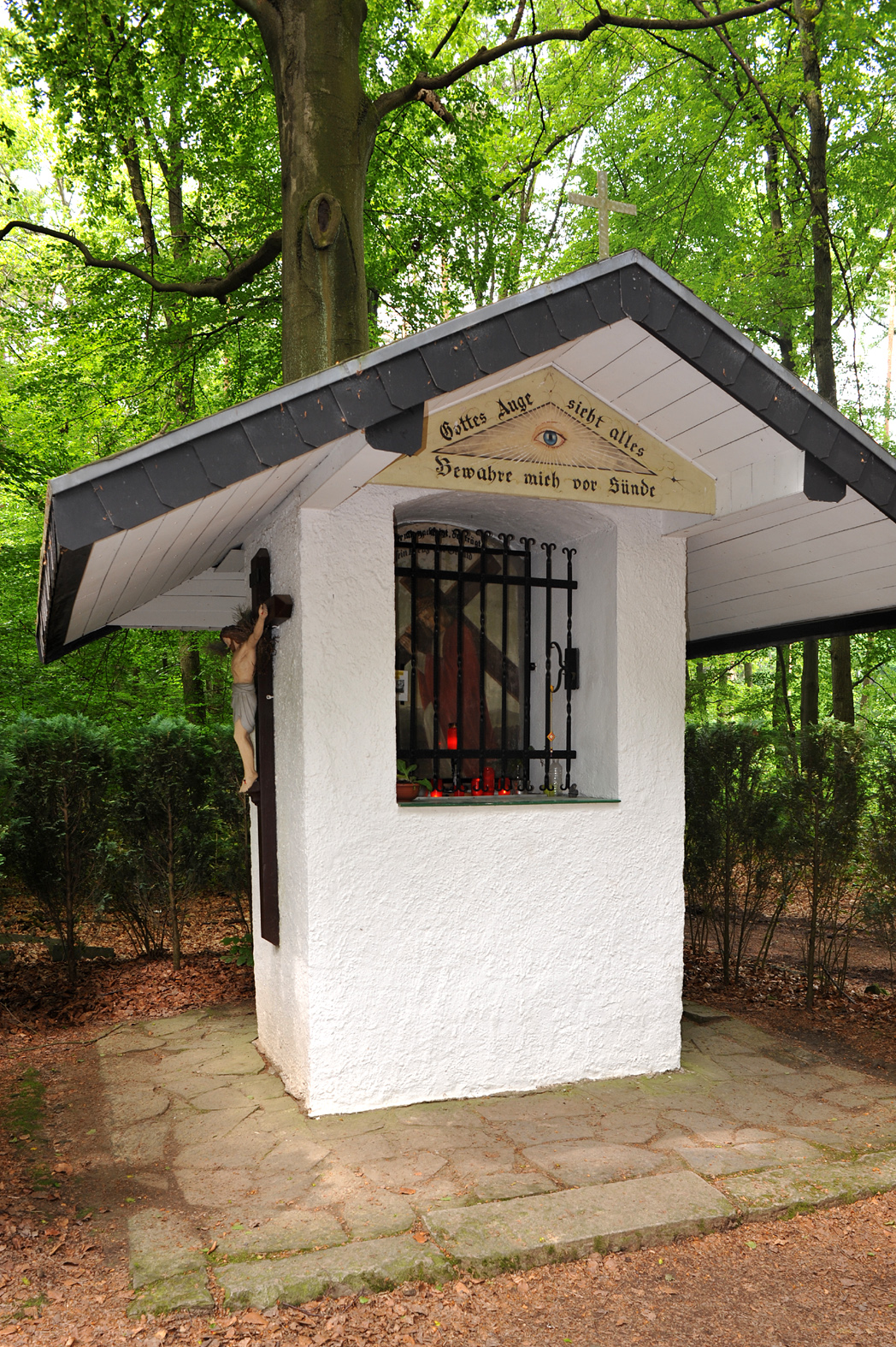 Auge Gottes (God's eye), a wayside shrine in the forest of Erpel east of Breite Heide; Rhineland-Palatinate, Germany.